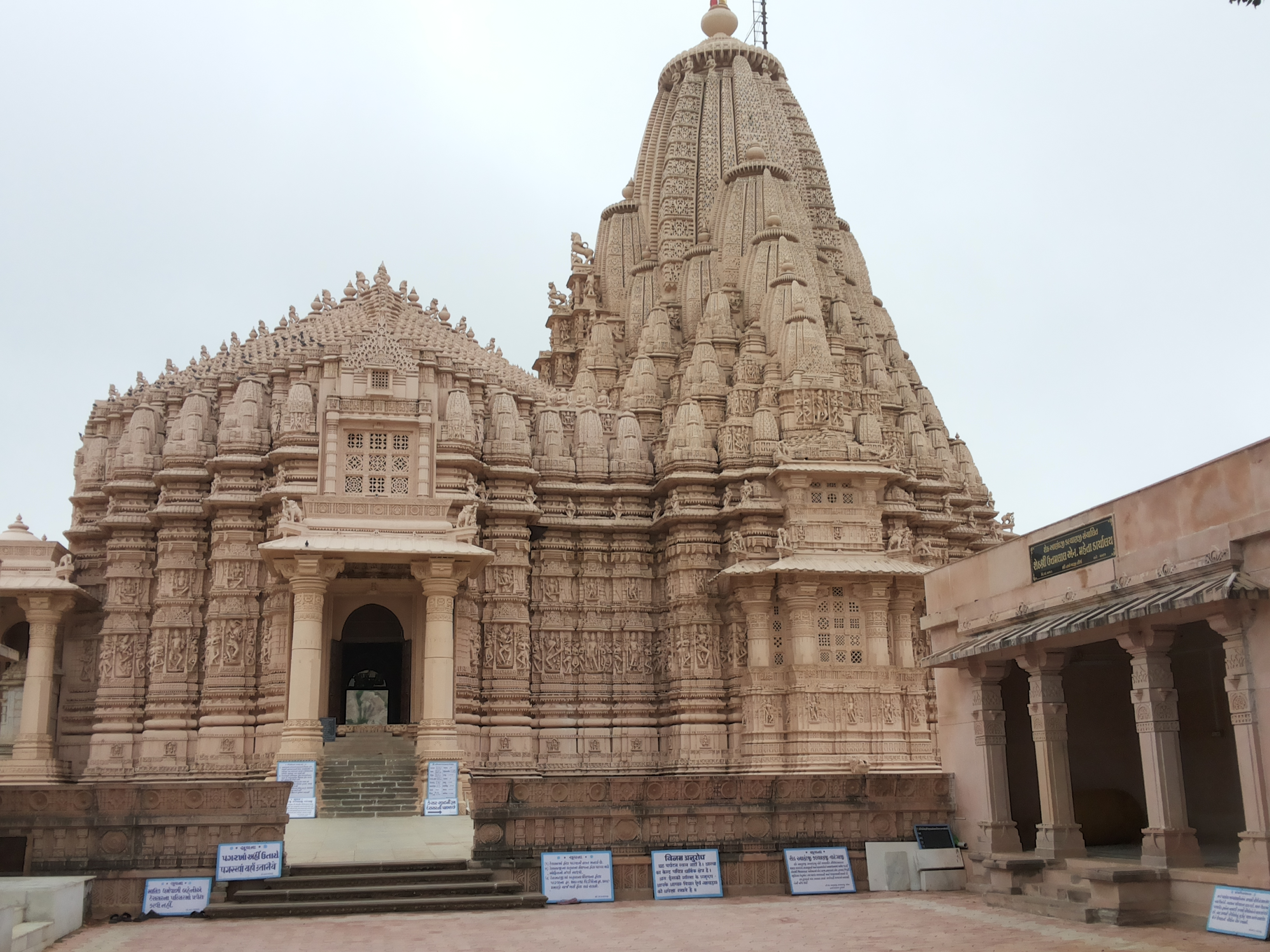 Tarangaji Jain Temple of Lord Ajitanatha, constructed in 1121 AD by King Kumarpala of Solanki dynasty